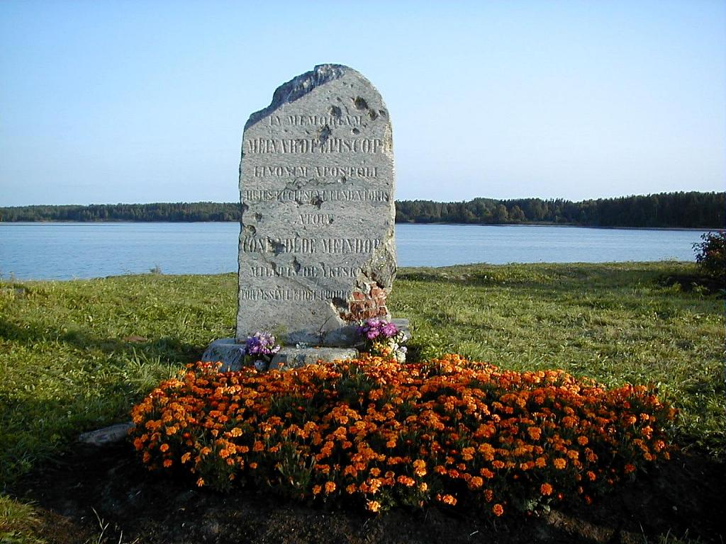 Memorial to Bishop Meinhard near Ikšķile. German missionary and saint